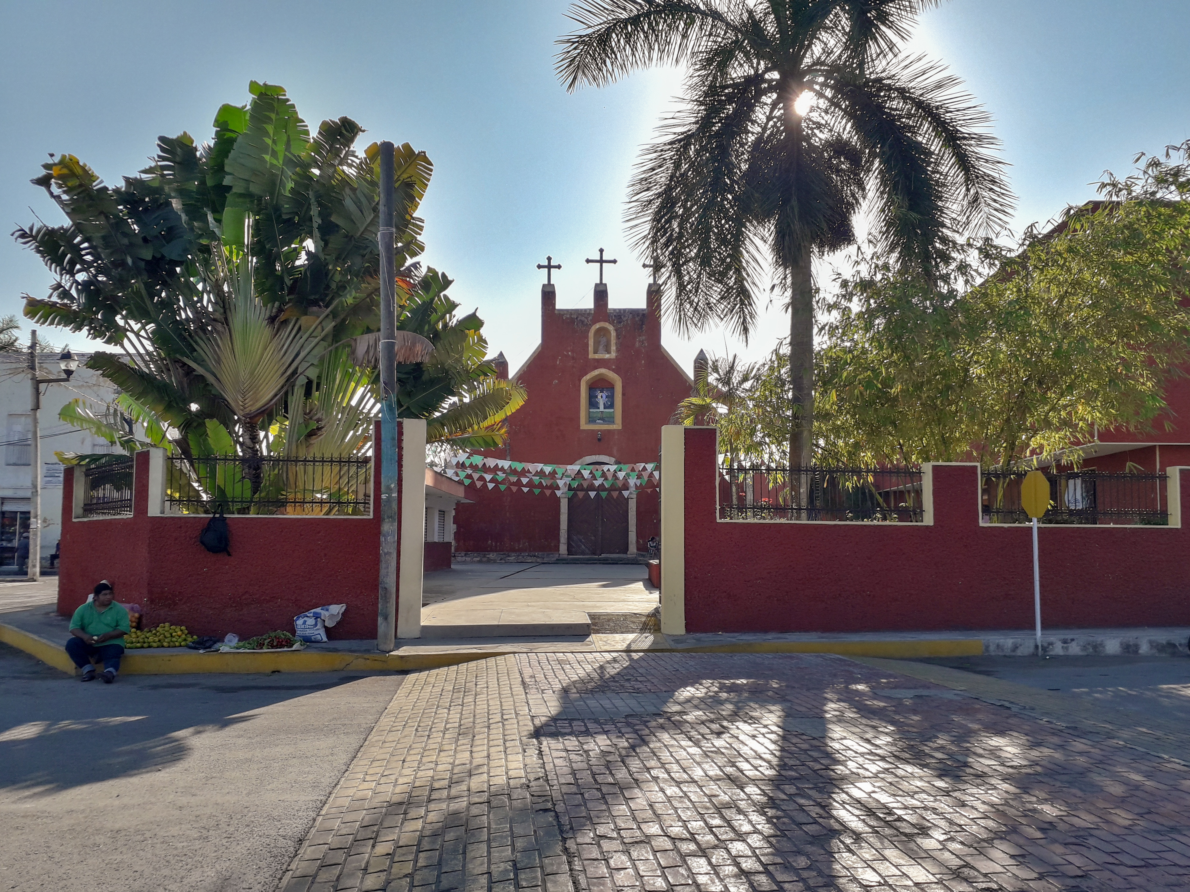 Church in Panaba, Yucatan.